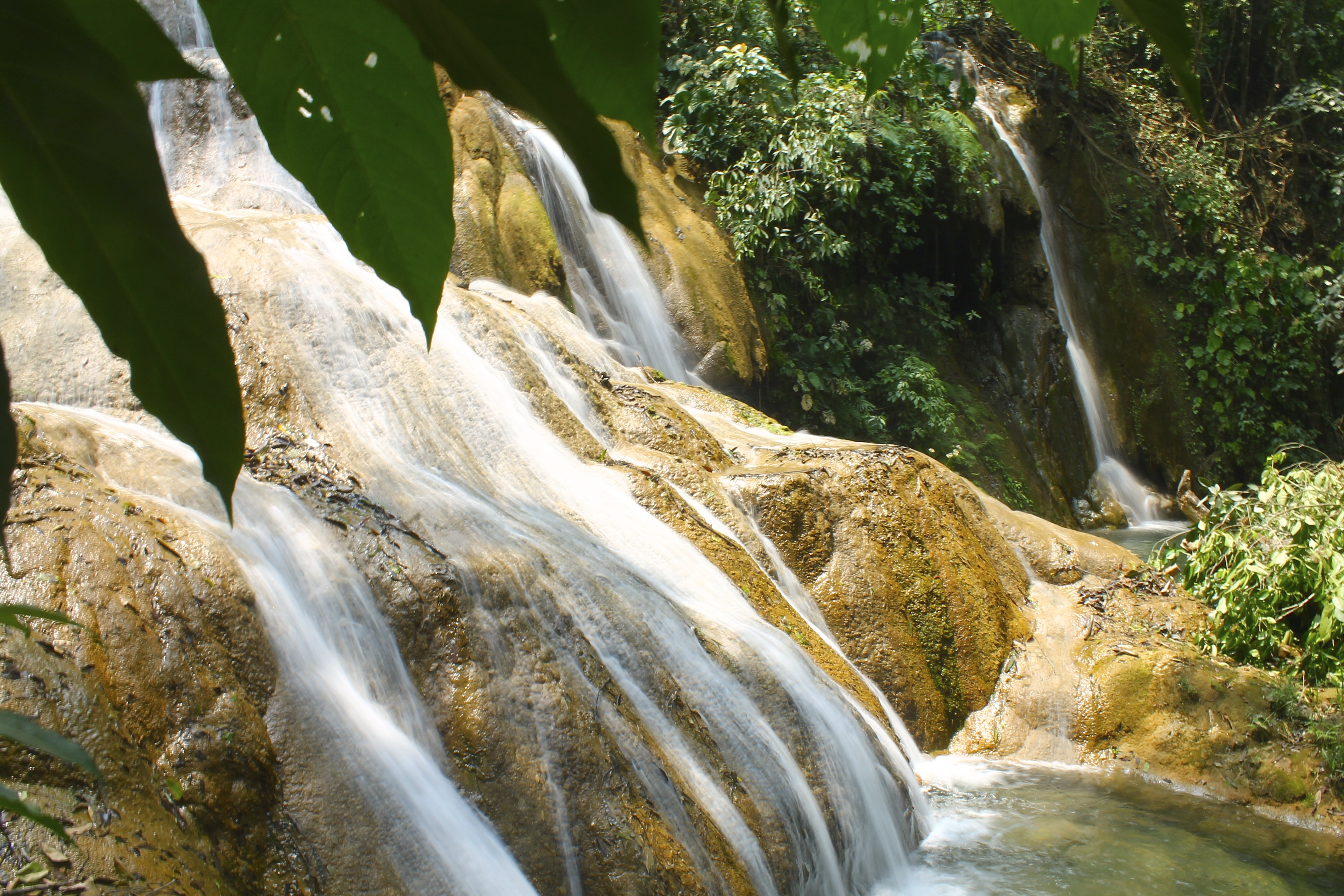 Las deslumbrantes cascadas de Agua Azul, una verdadera joya de tierras chiapanecas.